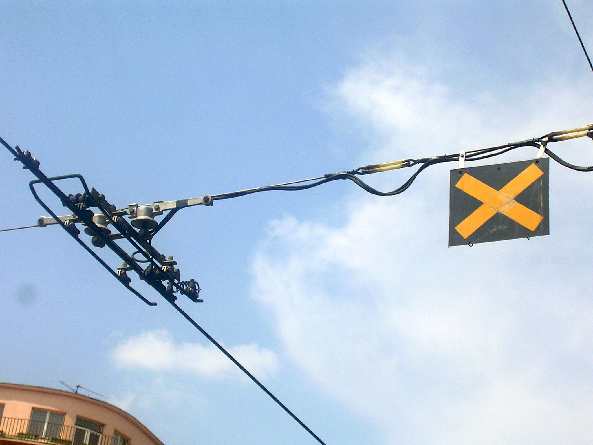 The controlling equipment of electric controlled tram road switch in Prague. A sign "electric controll out of service".